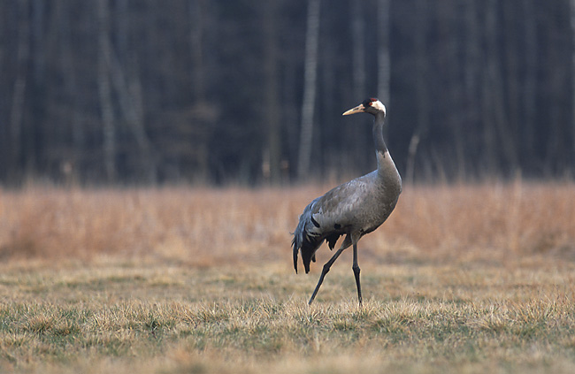 Common crane (grus grus) in Poland